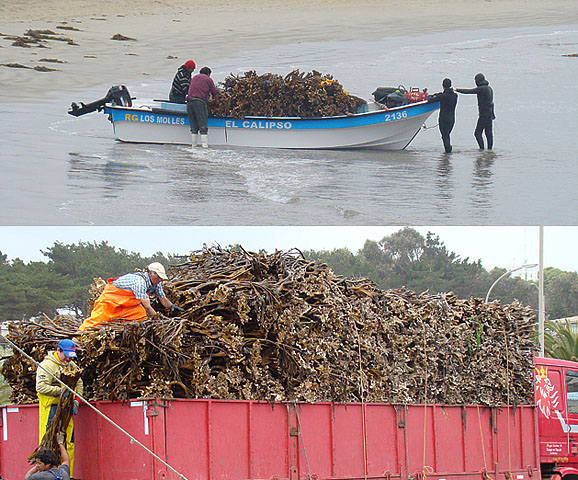 A seeweed known as Huiro Palo massively harvested in Chile for export as a thickening agent in foods and cosmetics. The ecological consequences can be devastating.